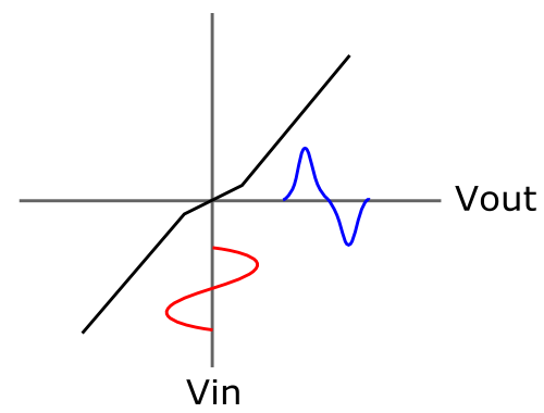 transfer_characteristic of a Class-B amplifier